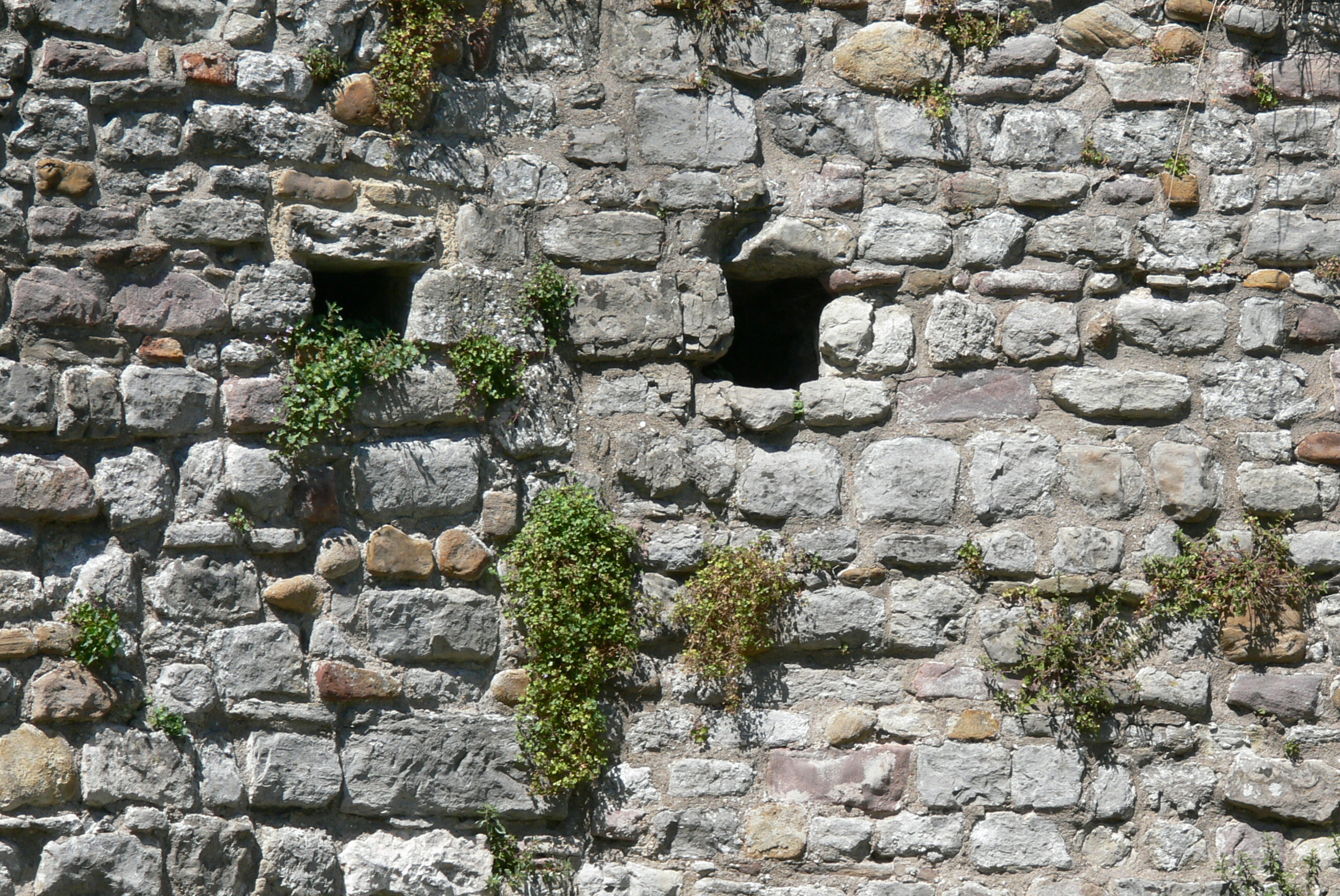 Cardiff Castle ( Wales ). Keep ( 12th century ) - outer defensive walls: Putlog holes for supporting timber.